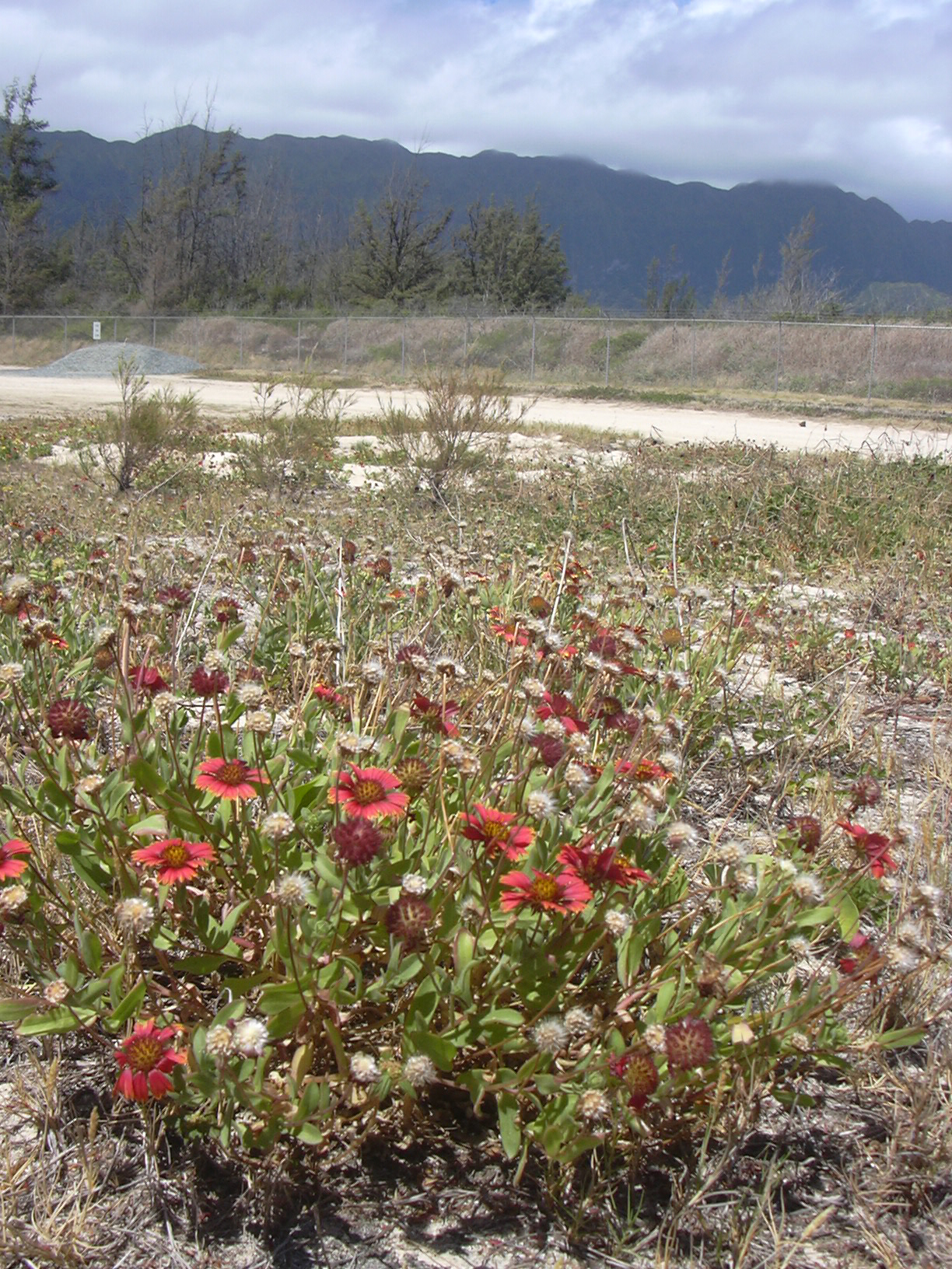 Gaillardia pulchella (flowers). Location: Oahu, Waimanalo